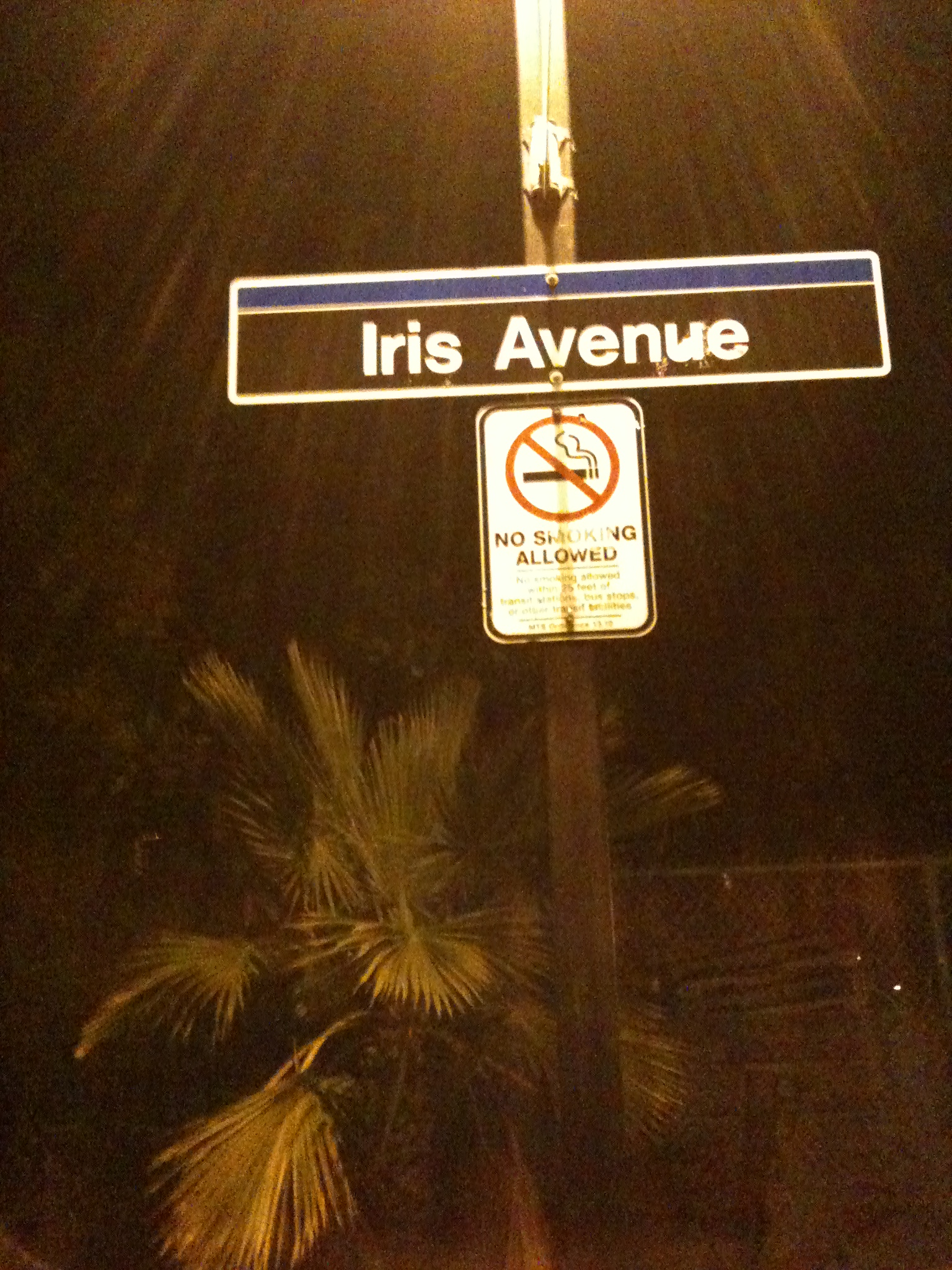 Irish Avenue Trolley Station in San Diego